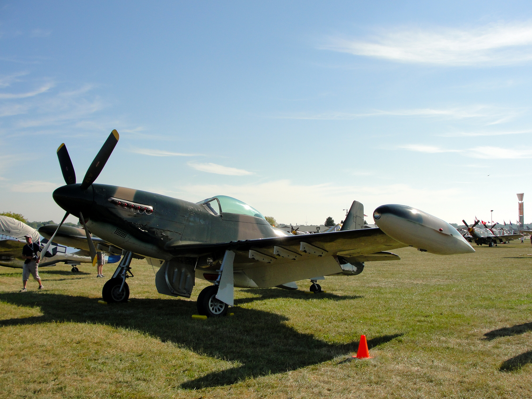 Cavalier Mustang, Taken at Oshkosh 2012